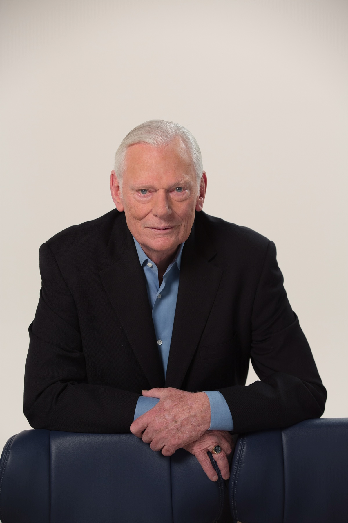 Herb Kelleher, November 25, 2013.